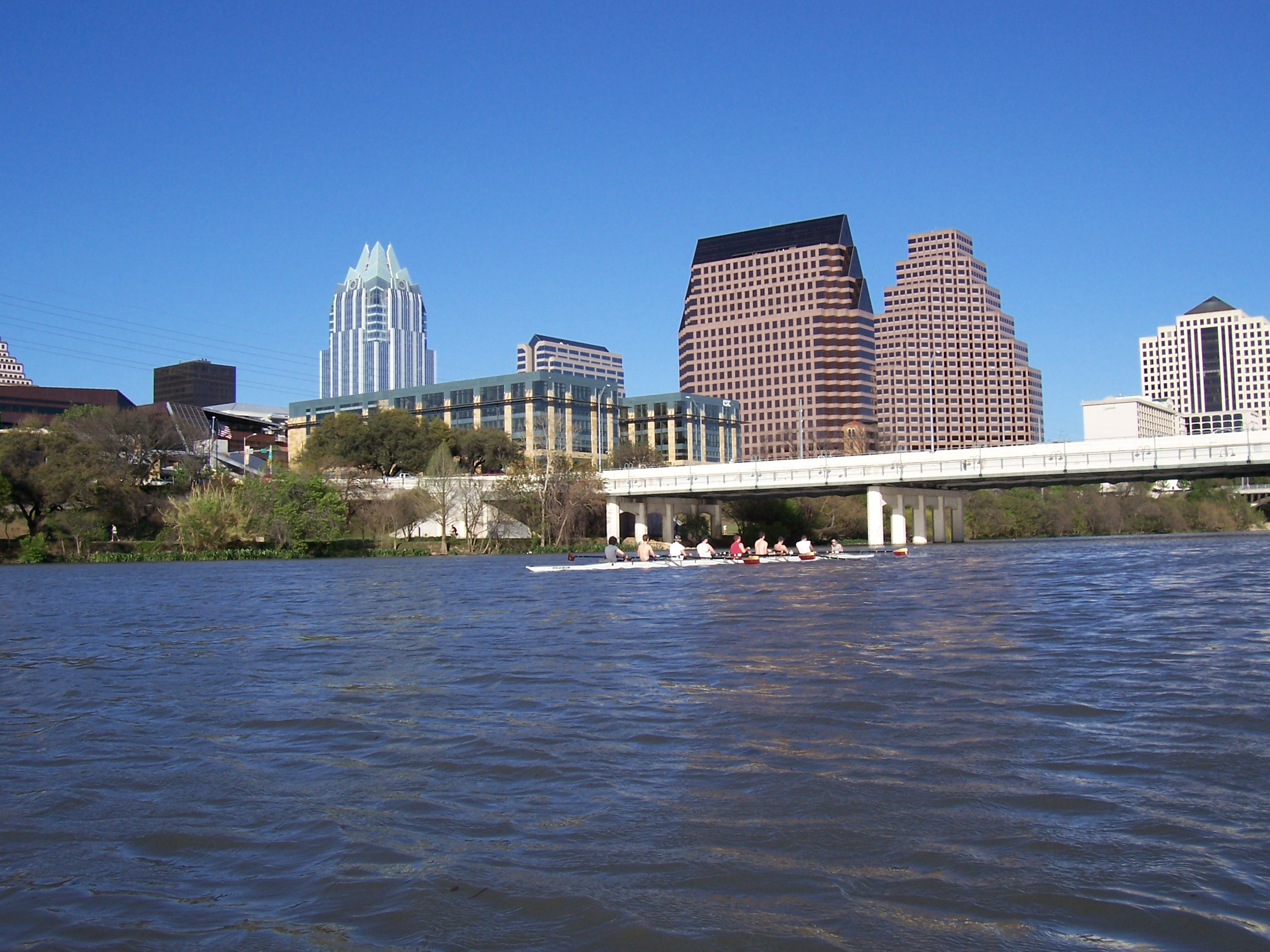 The view of downtown Austin, Texas fromTown Lake. Town Lake is a section of the Colorado River created by Longhorn Dam.